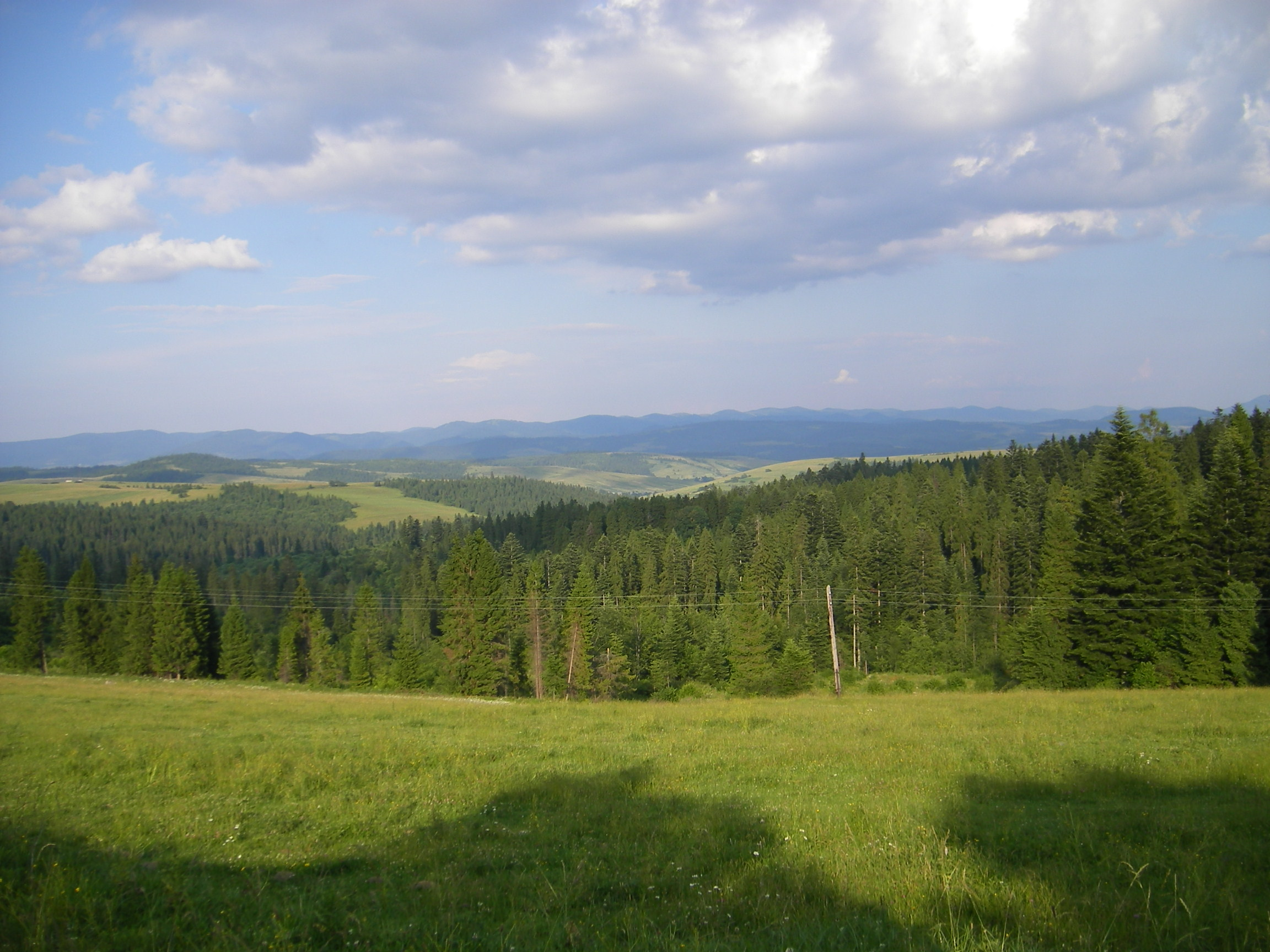 Beskidy mountains near Turka